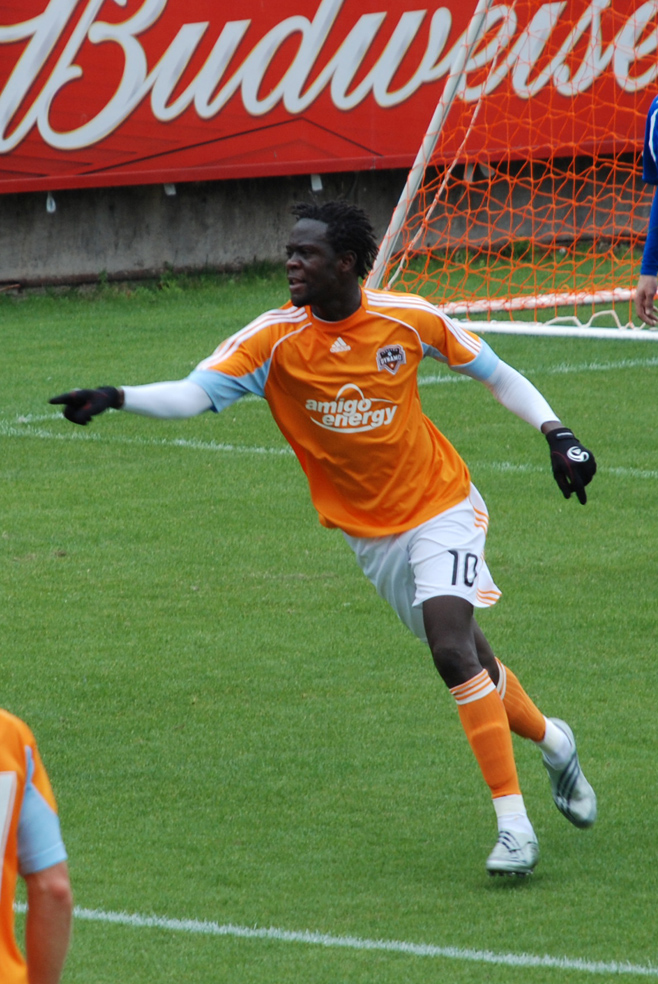 Scrimmage – Houston vs. Montreal @ Robertson Stadium